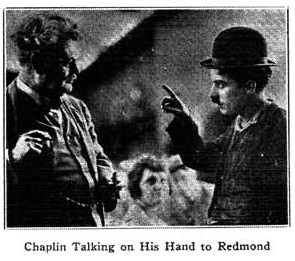 Chaplin Talking on his Hand to Redmond (Granville Redmond and Charlie Chaplin) Other information Caption: "Chaplin Talking on his hand to Redmond"